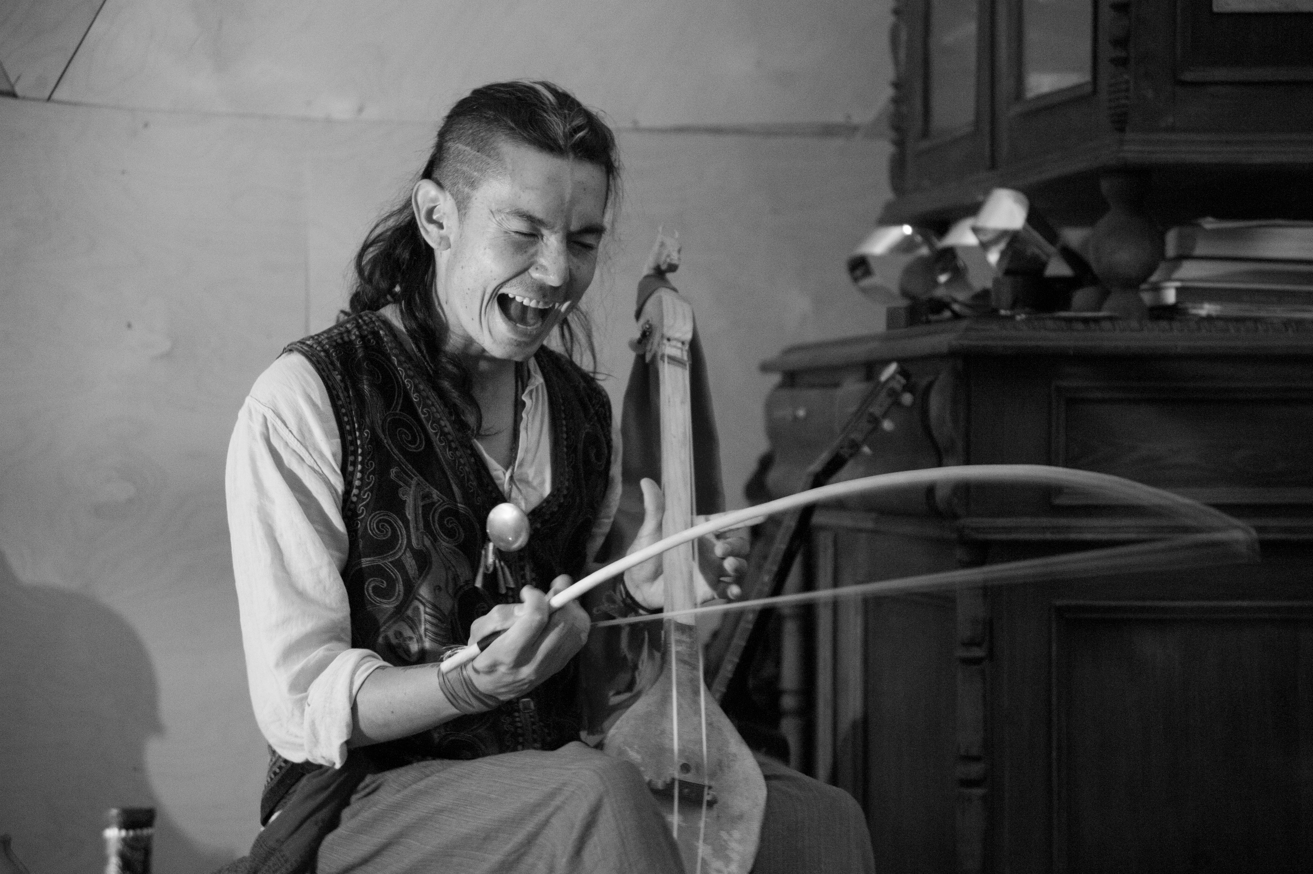 Ikaro Valderrama plays the tuvan igil in a concert in Novosibirsk, Russia, 2014.